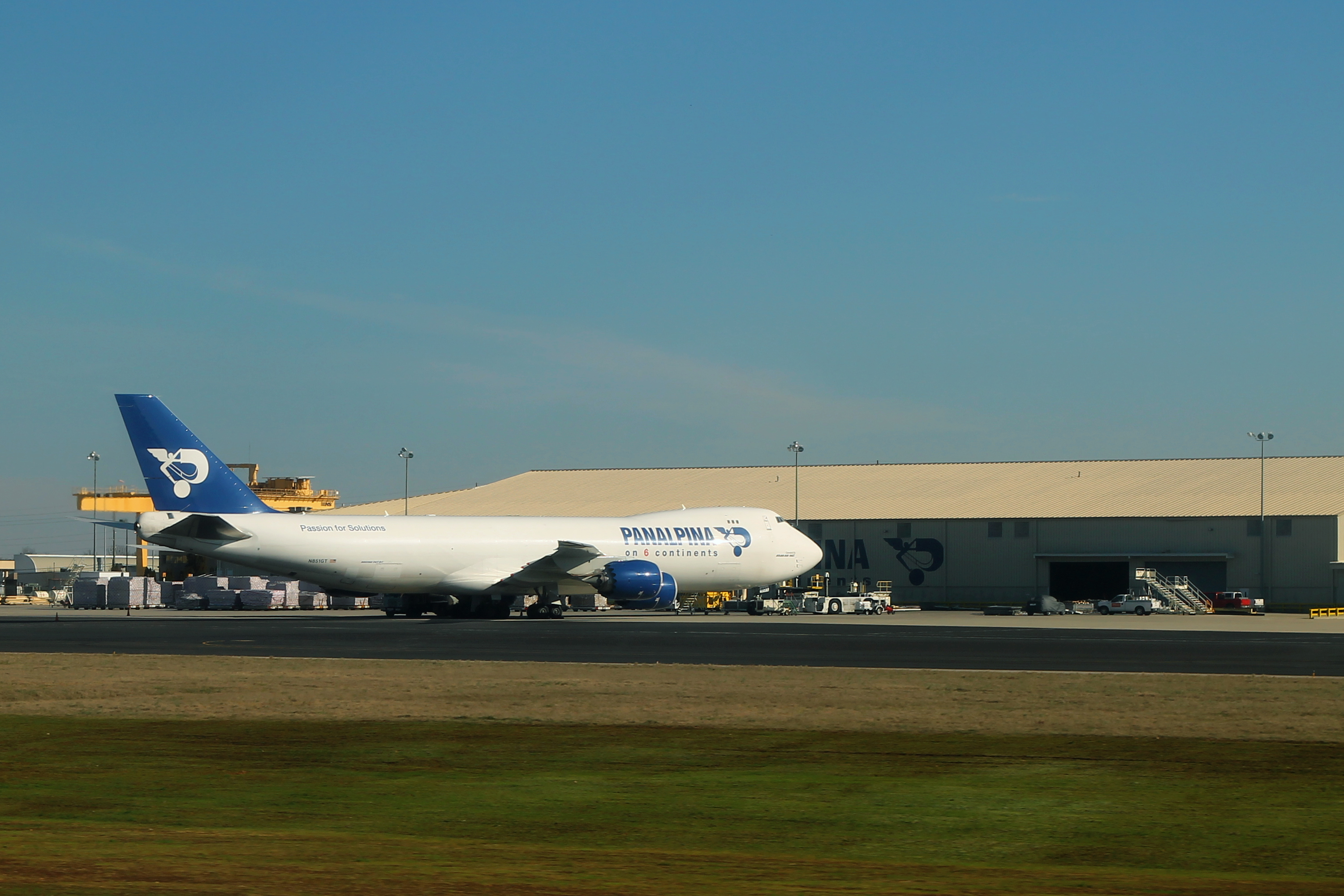 A Boeing 747-8F of air freight carrier Panalpina, parked at the cargo hangar for Huntsville International Airport. Registration: N851GT.